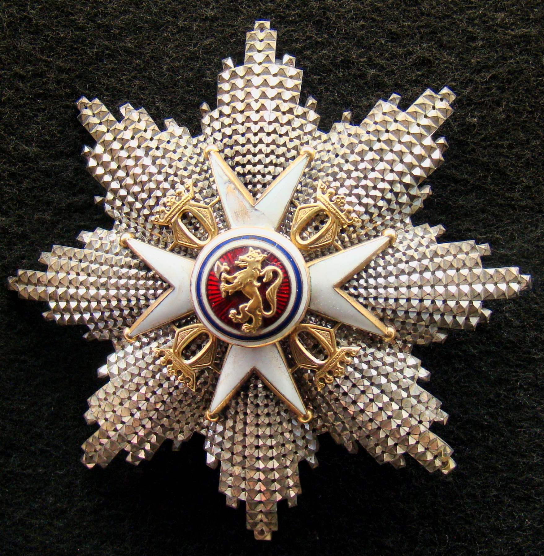 The Star of the Norwegian Order of Saint Olav. Photographed at the Fram Museum in Oslo, Norway.